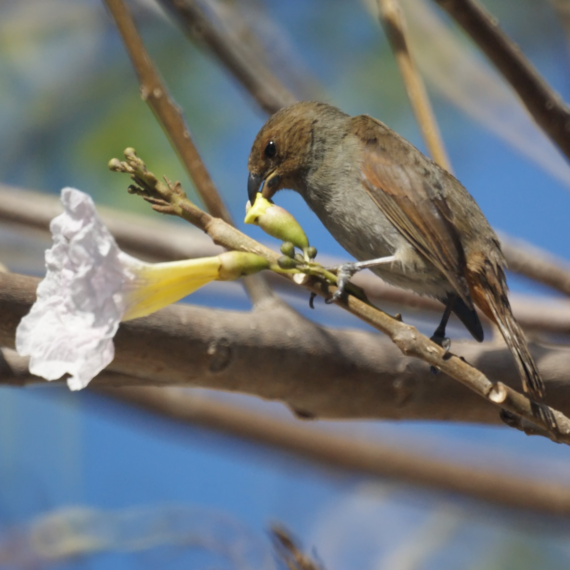 A Lesser Antillean Bullfinch in St George's, Grenada. It is probably a female or a juvenile.